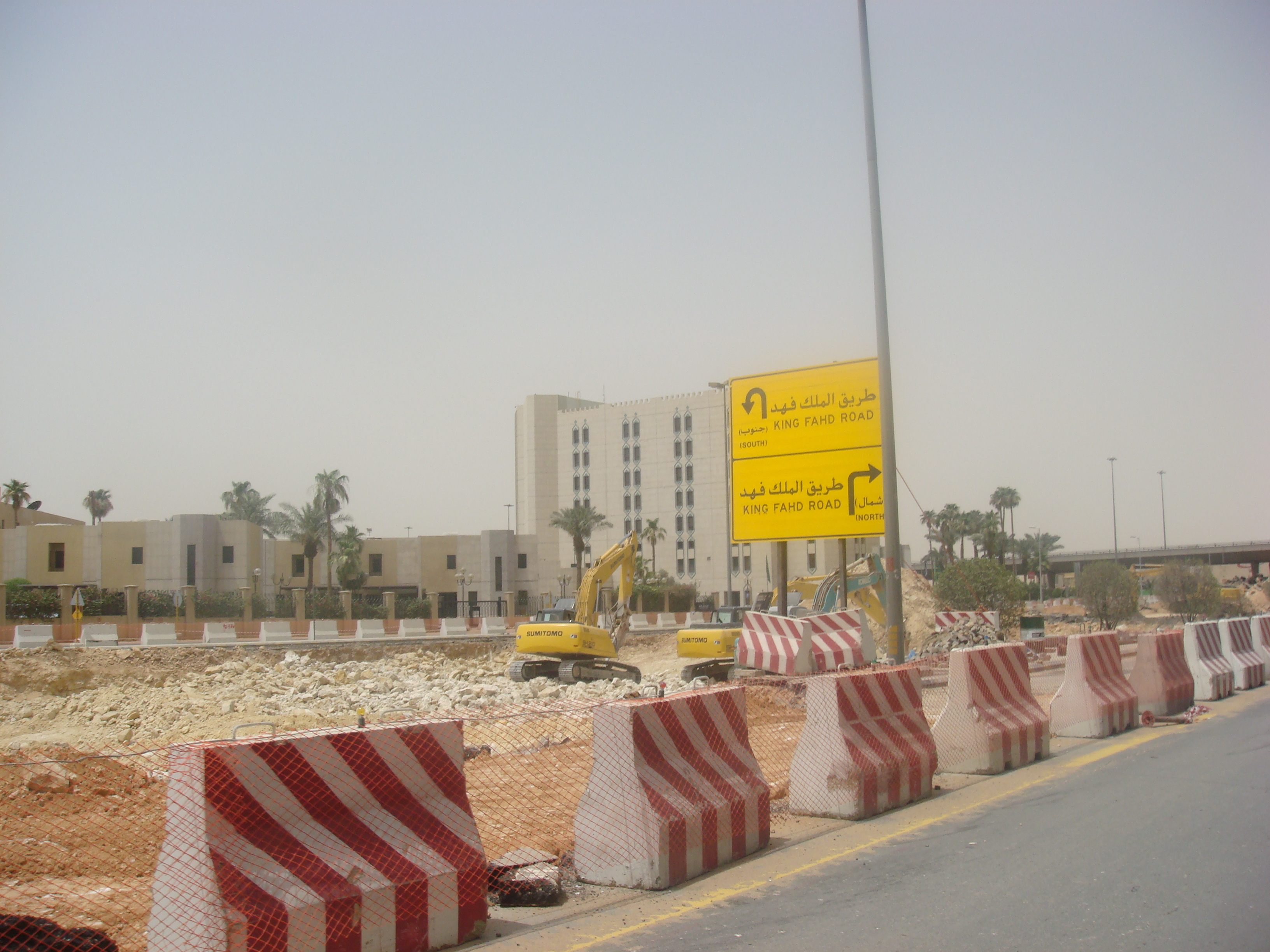 Renovation of King Abdullah Road Riyadh